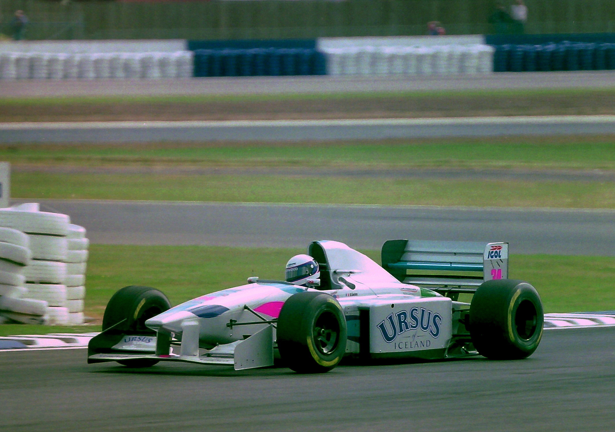 Bertrand Gachot - Pacific PR01 at the 1994 British Grand Prix